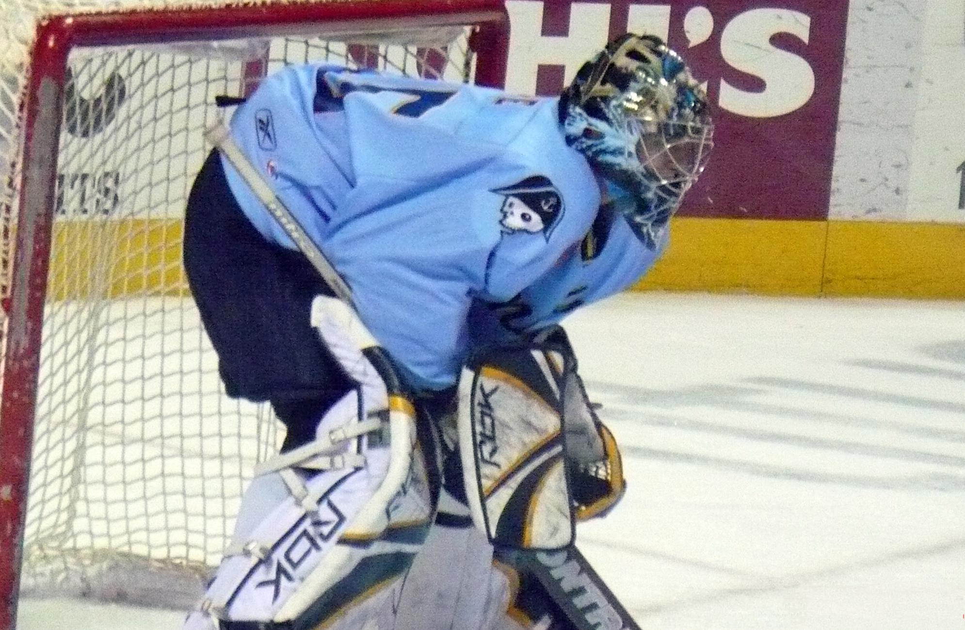 Pekka Rinne, a Finnish ice hockey goaltender (playing for the Milwaukee Admirals) in goal vs. the Rockford Icehogs